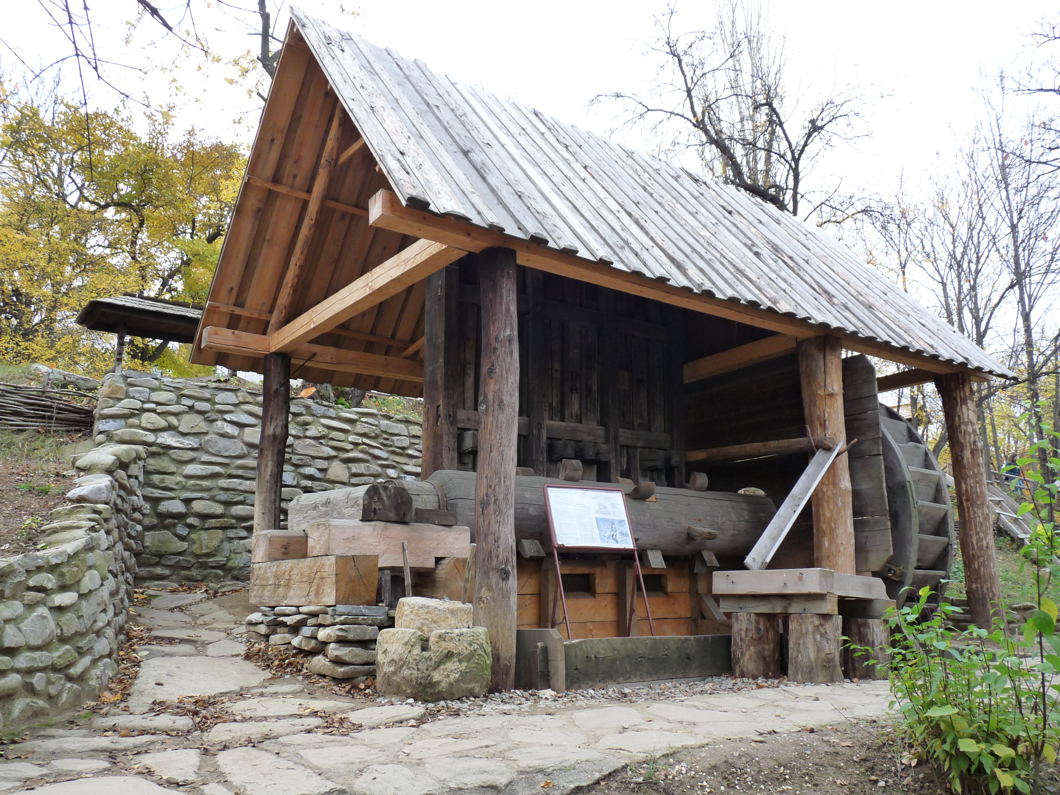 20th century pestle stamp for crushing gold ore from Bucium-Poieni, Alba County, exhibited in the Village Museum in Bucharest.